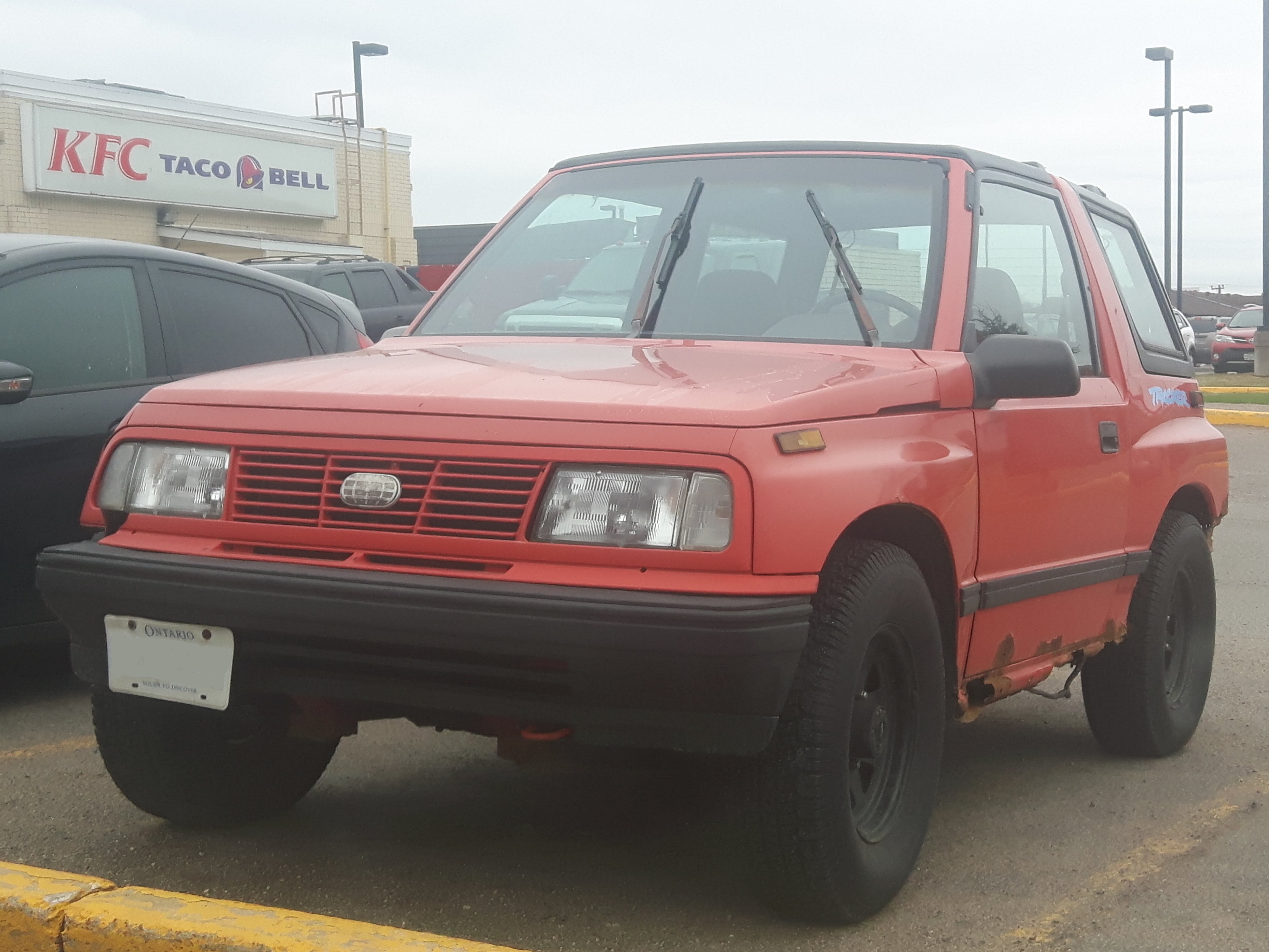 Geo Tracker photographed in Sault Ste. Marie, Ontario, Canada